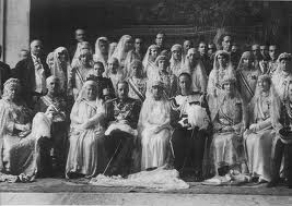 Royal Family of Spain (1929)